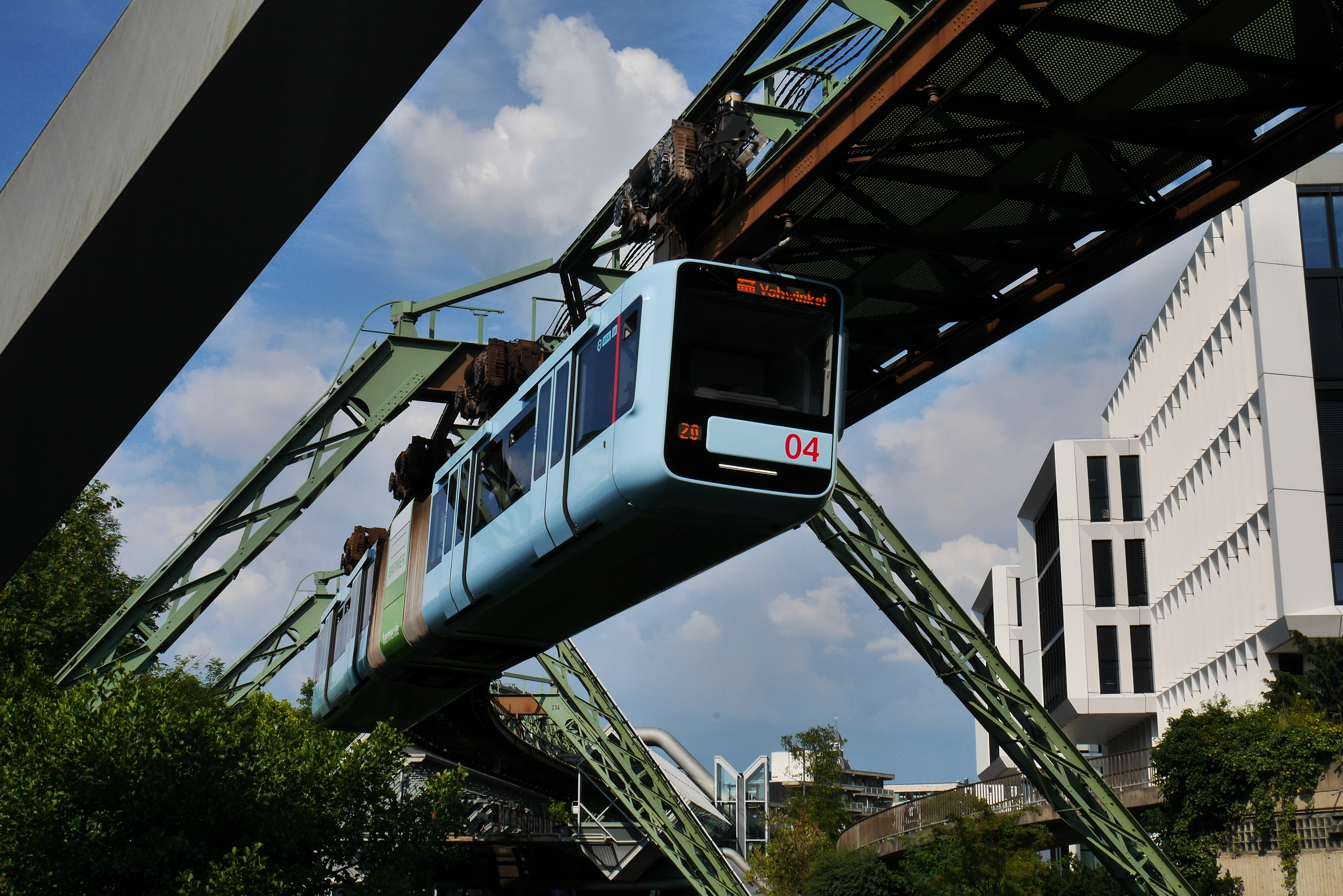 Wuppertal Schwebebahn Generation 15